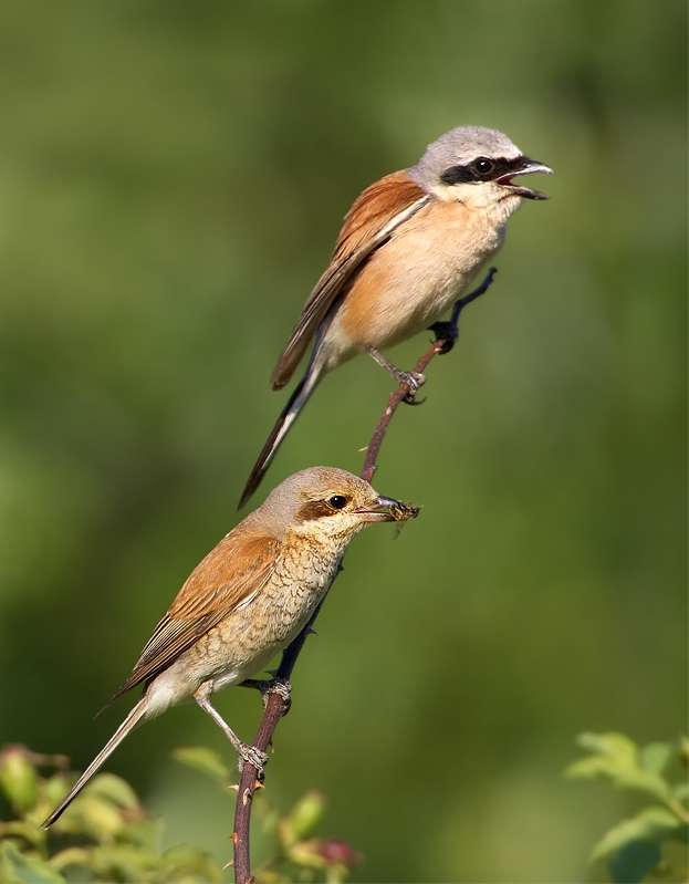 Lanius collurio - male (high) and female; Libavá, CZ